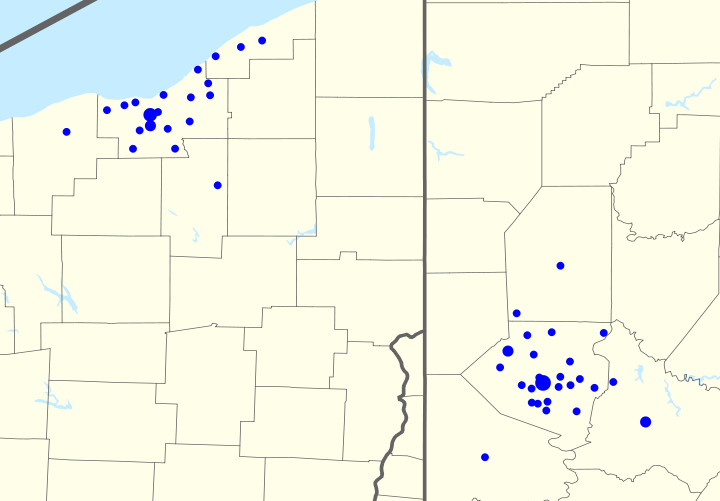 Footprint of Dollar Bank branches within western Pennsylvania and eastern Ohio. Zip codes with more than one branch have progressively larger points.